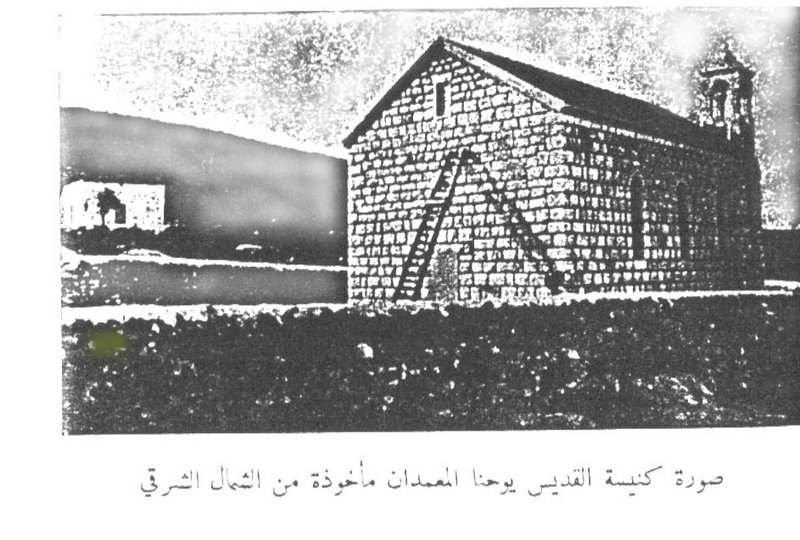 Al-Mansura